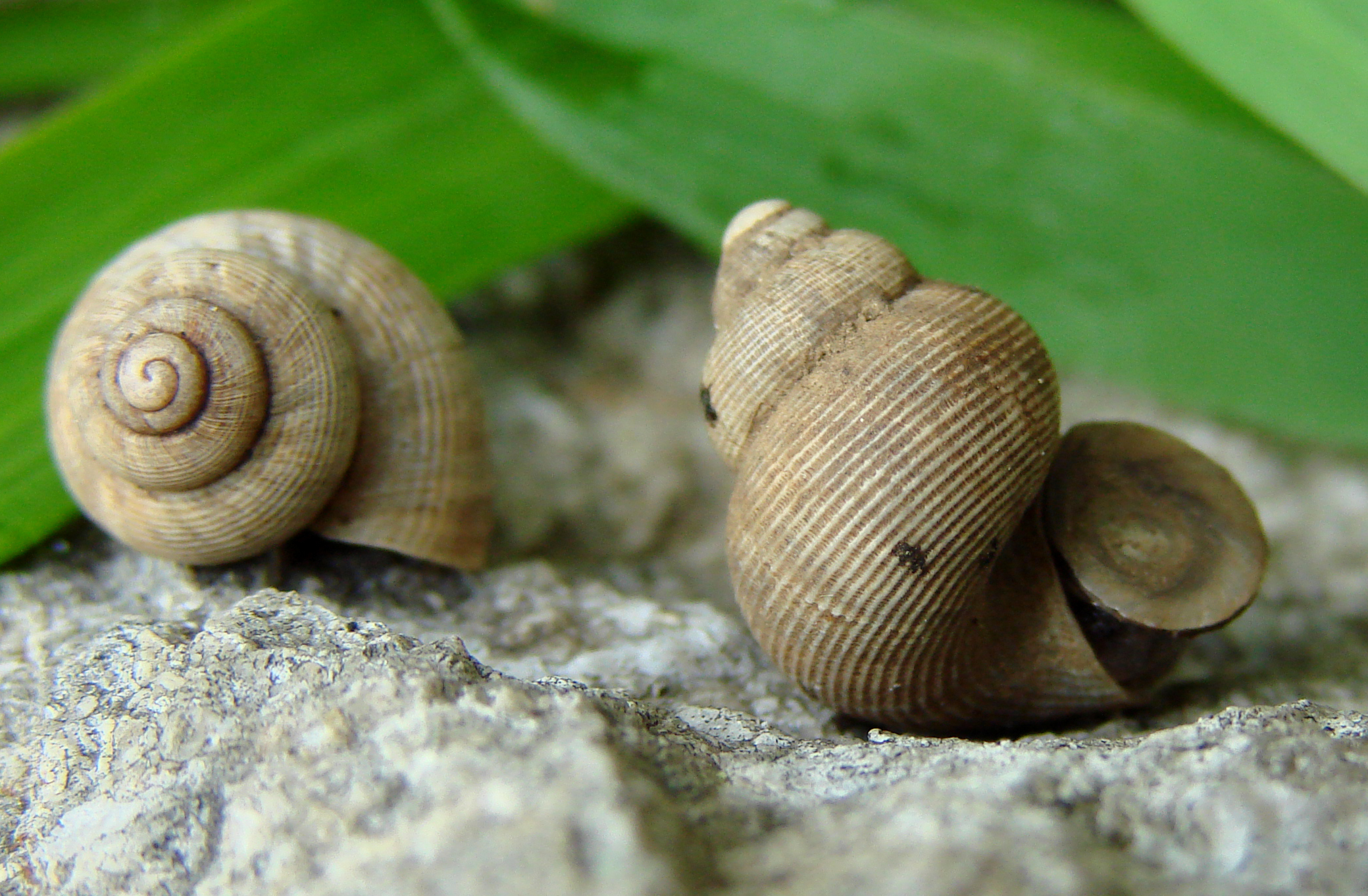 Pomatias elegans